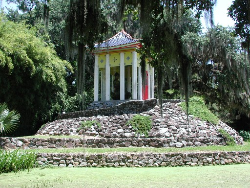 A Buddha temple within the Jungle Gardens's Chinese garden on Avery Island.